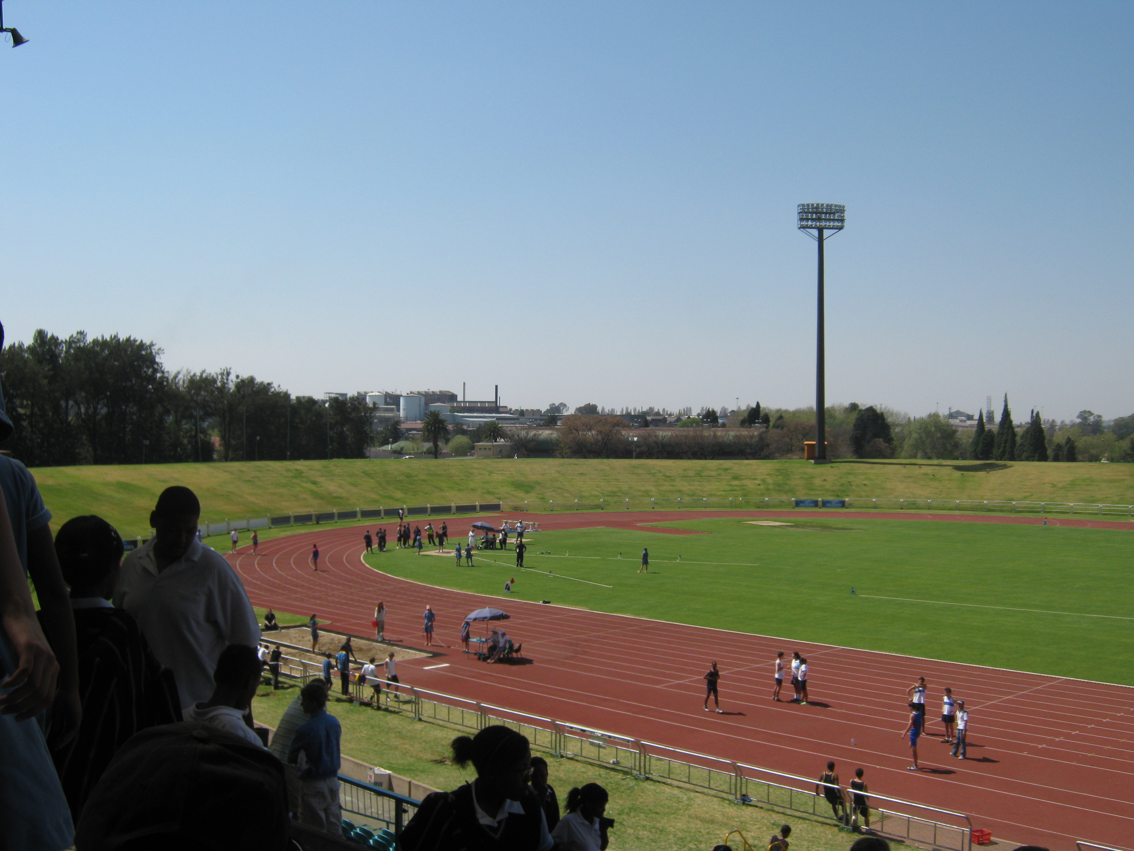 The view from the grandstand at Germiston Stadium during the 2009 South Gauteng Inter-Catholic athletics competition.